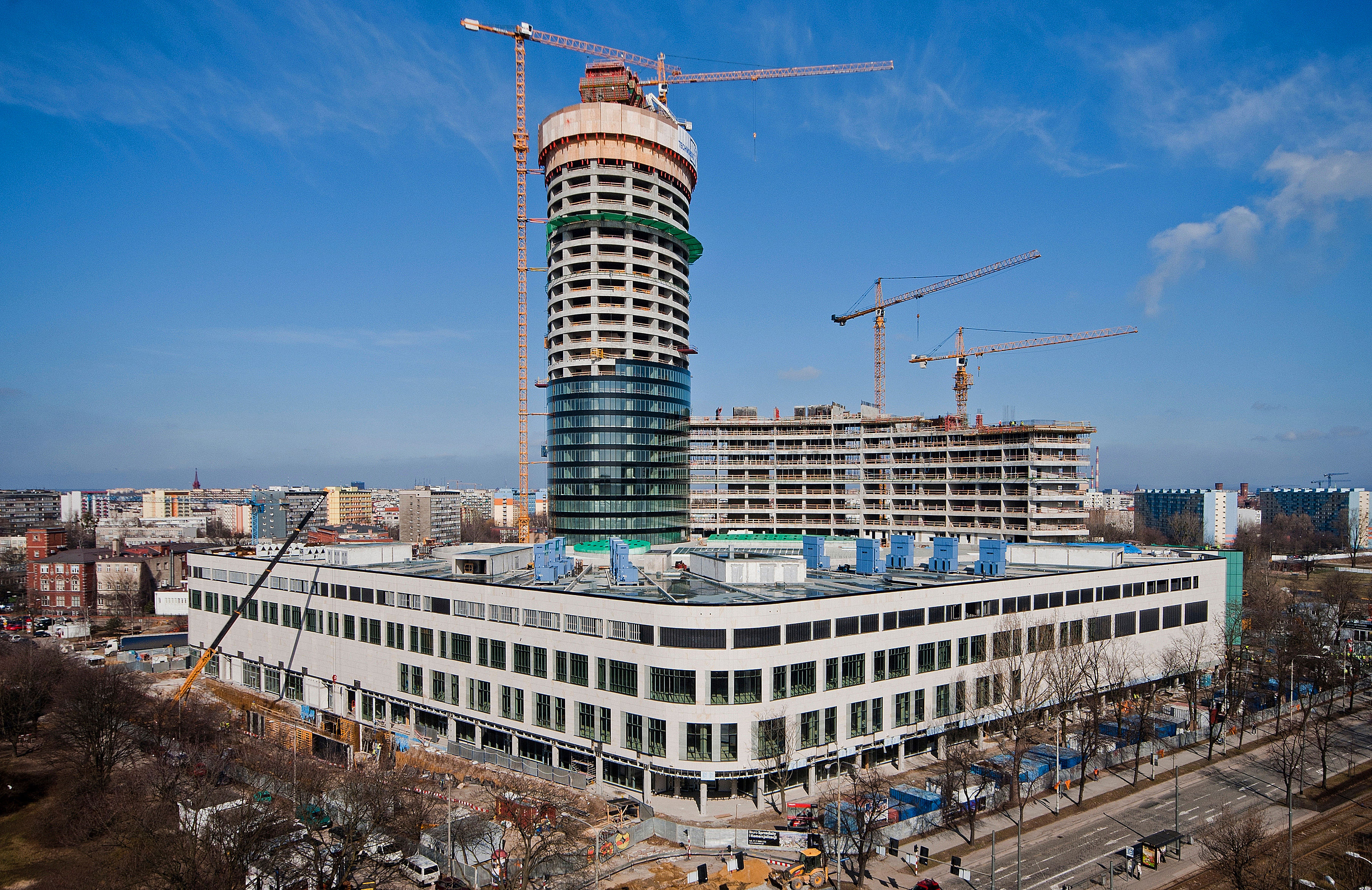 Sky Tower